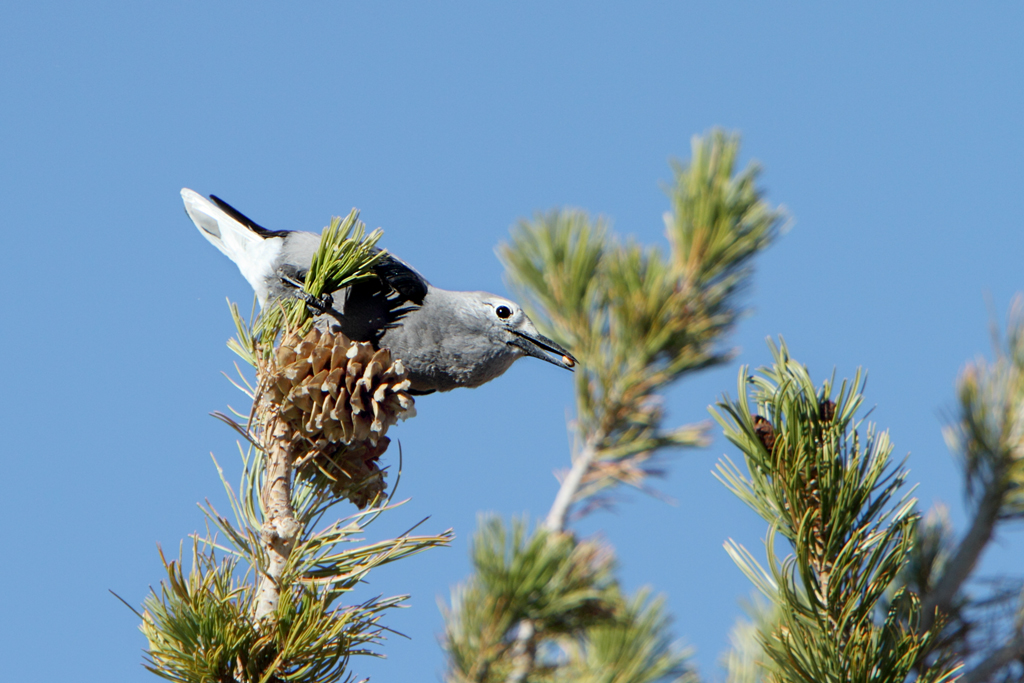 Clark's Nutcracker Nucifraga columbiana feeding on Limber Pine Pinus flexilis seeds from a cone; Bryce Canyon National Park, Utah.